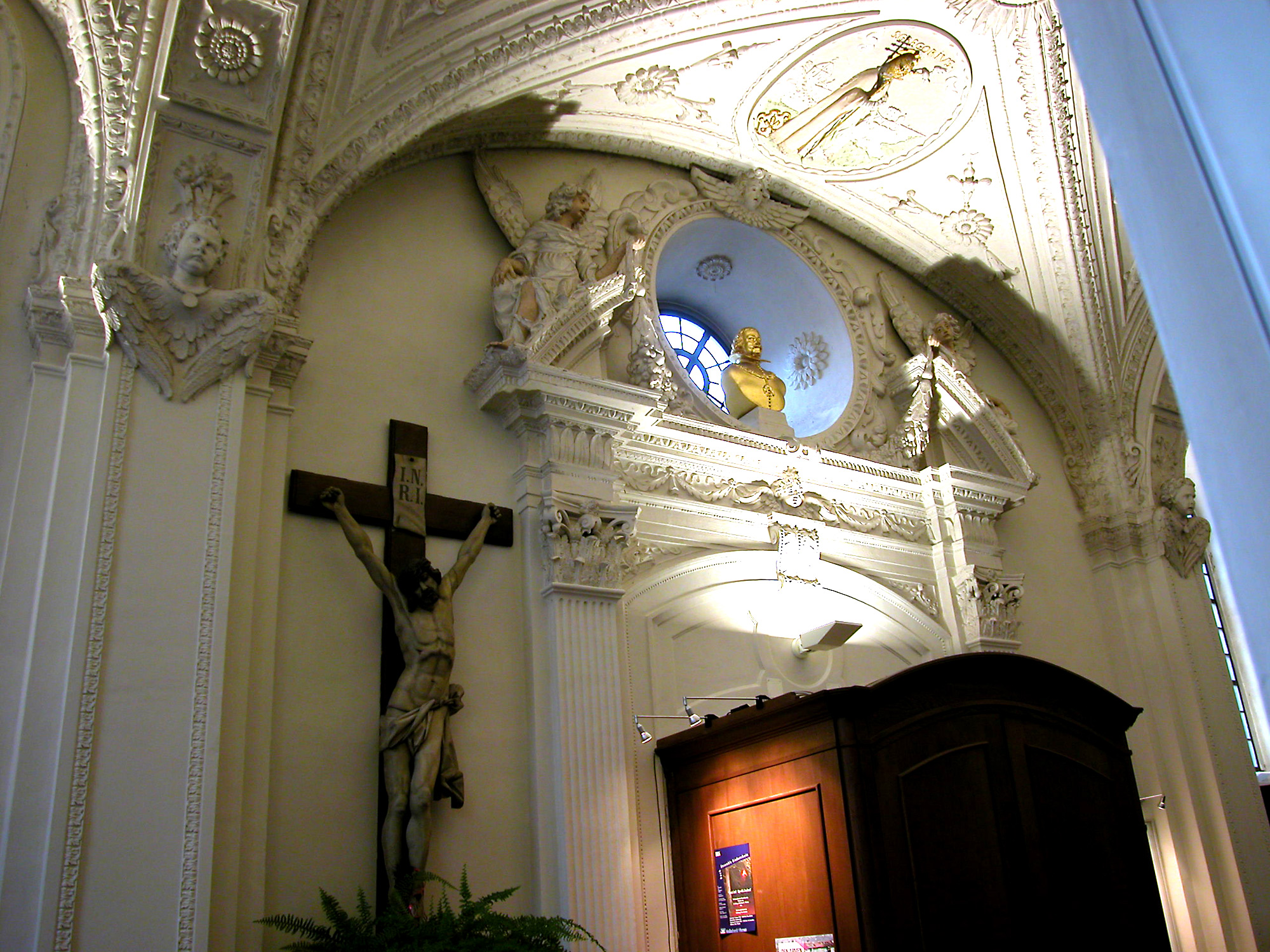 Andreas Church in Düsseldorf-Altstadt, Germany